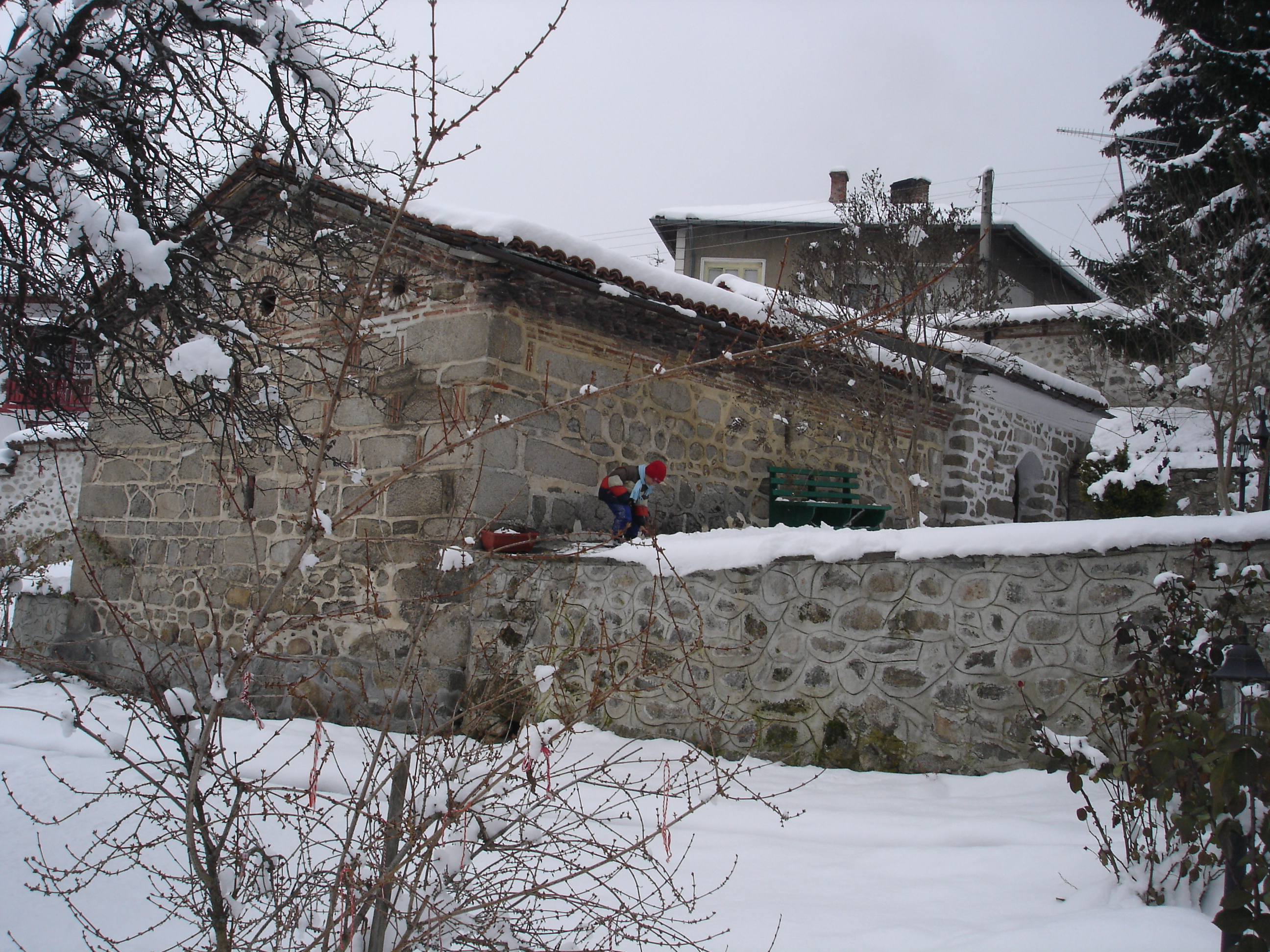 Church "St. Teodor Tiron and St. Teodor Stratilat" (Monument of Culture), Dobarsko, Blagoevgrad, Bulgaria.